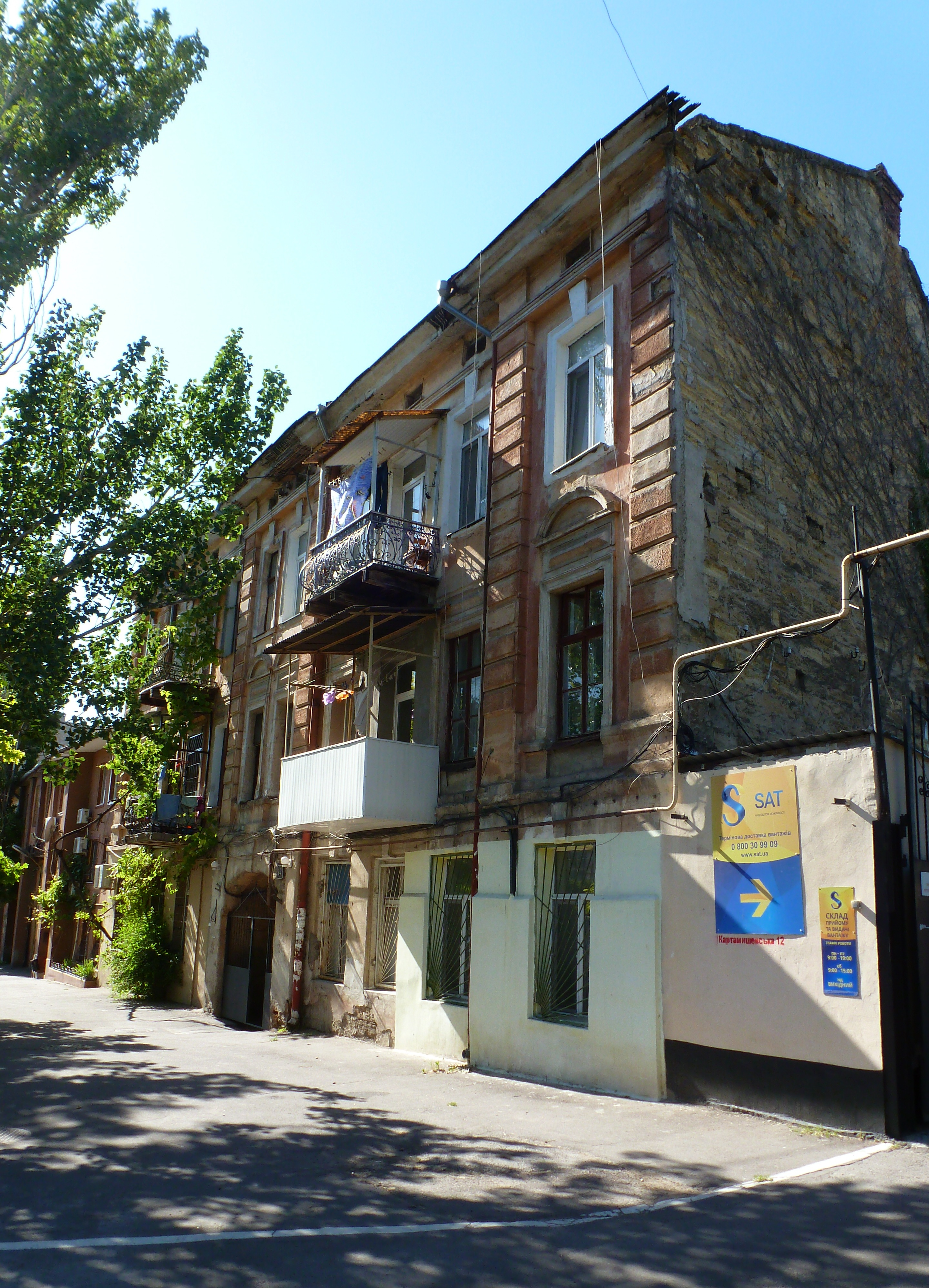 Kartamyshevskaya street, house of the courtyard 14, Odessa, in June 2017